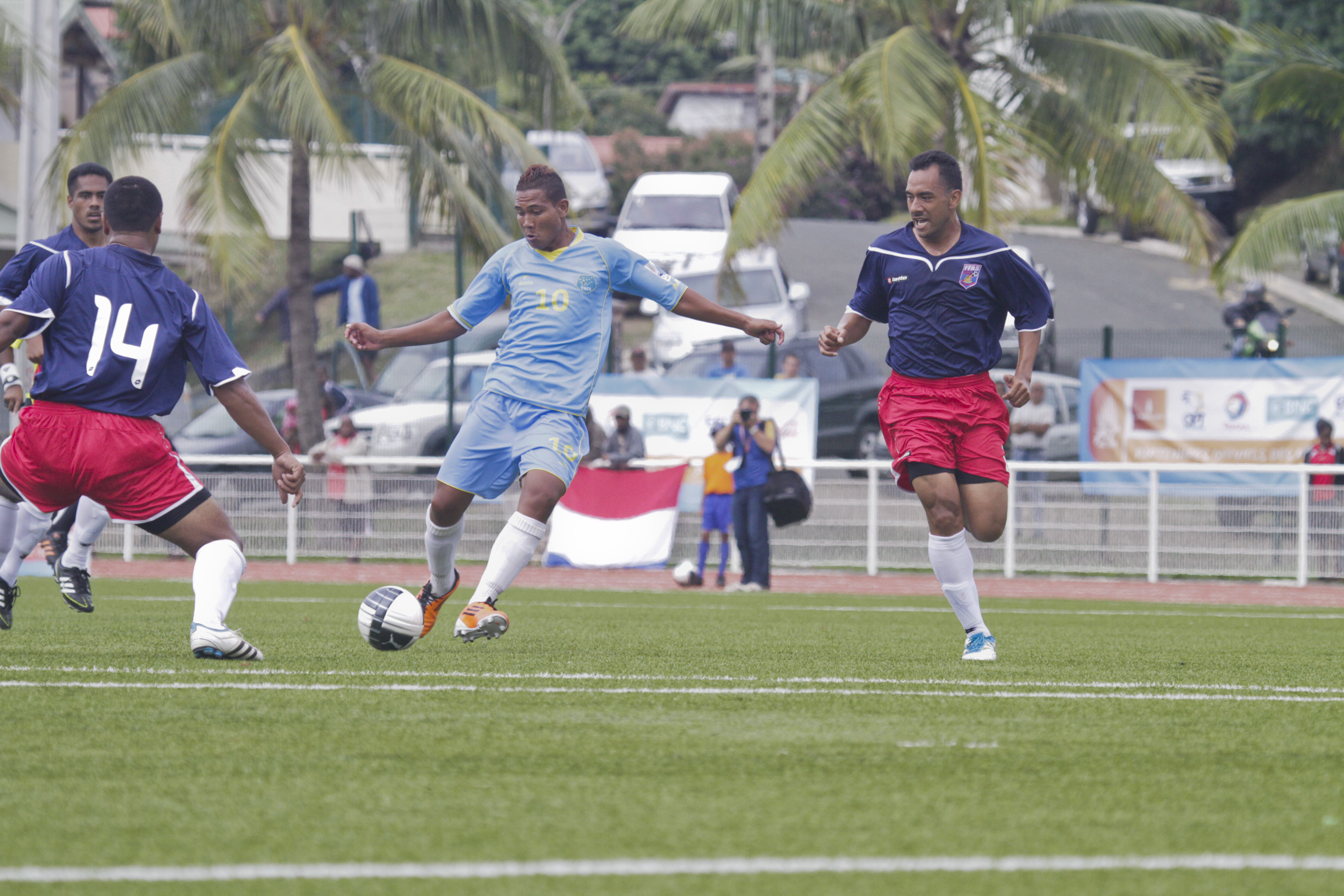 Lepaio_02